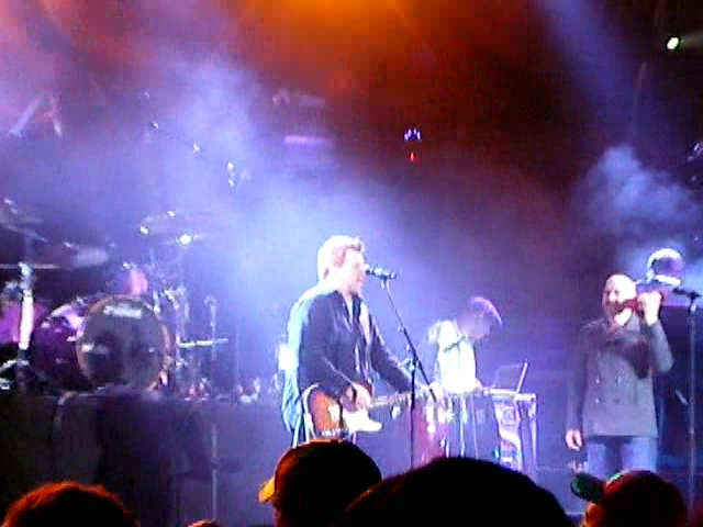 Newsong on Winter Jam 2009 Tour